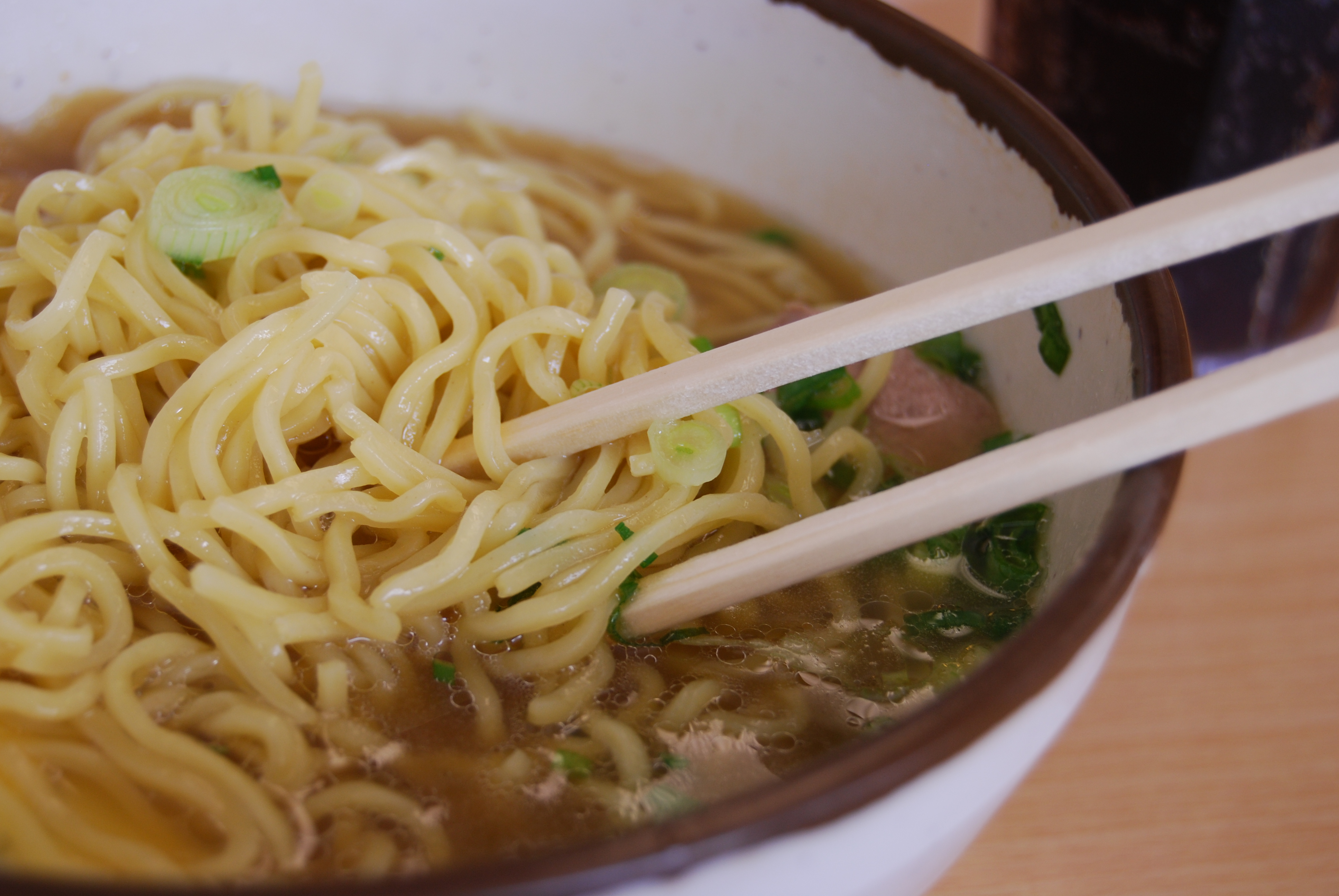 ooooh the noodles! we LOVED them. They were springing and al dente without being annoying chewy.